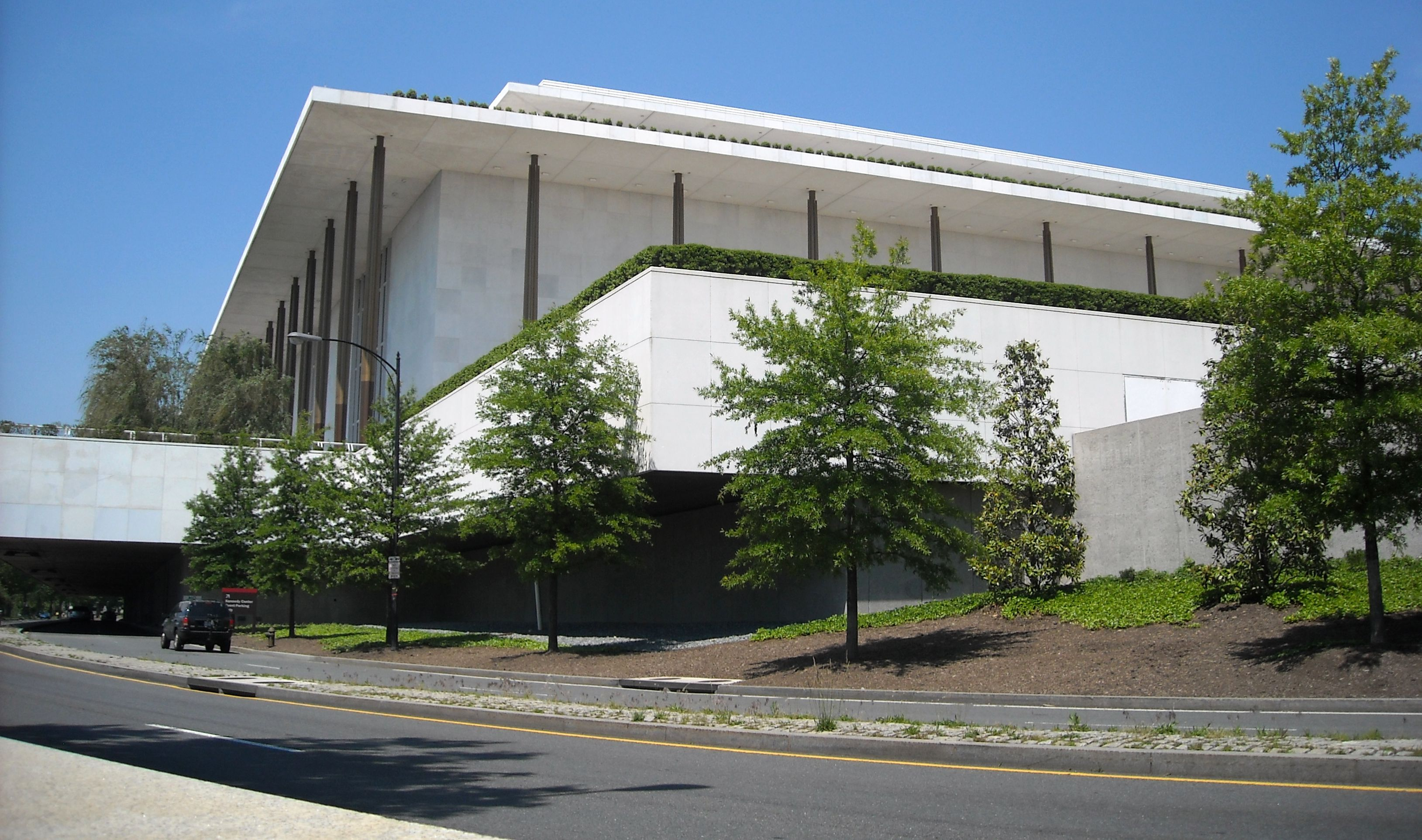 JFK Center for the Performing Arts and the Rock Creek Parkway in Washington, D.C.